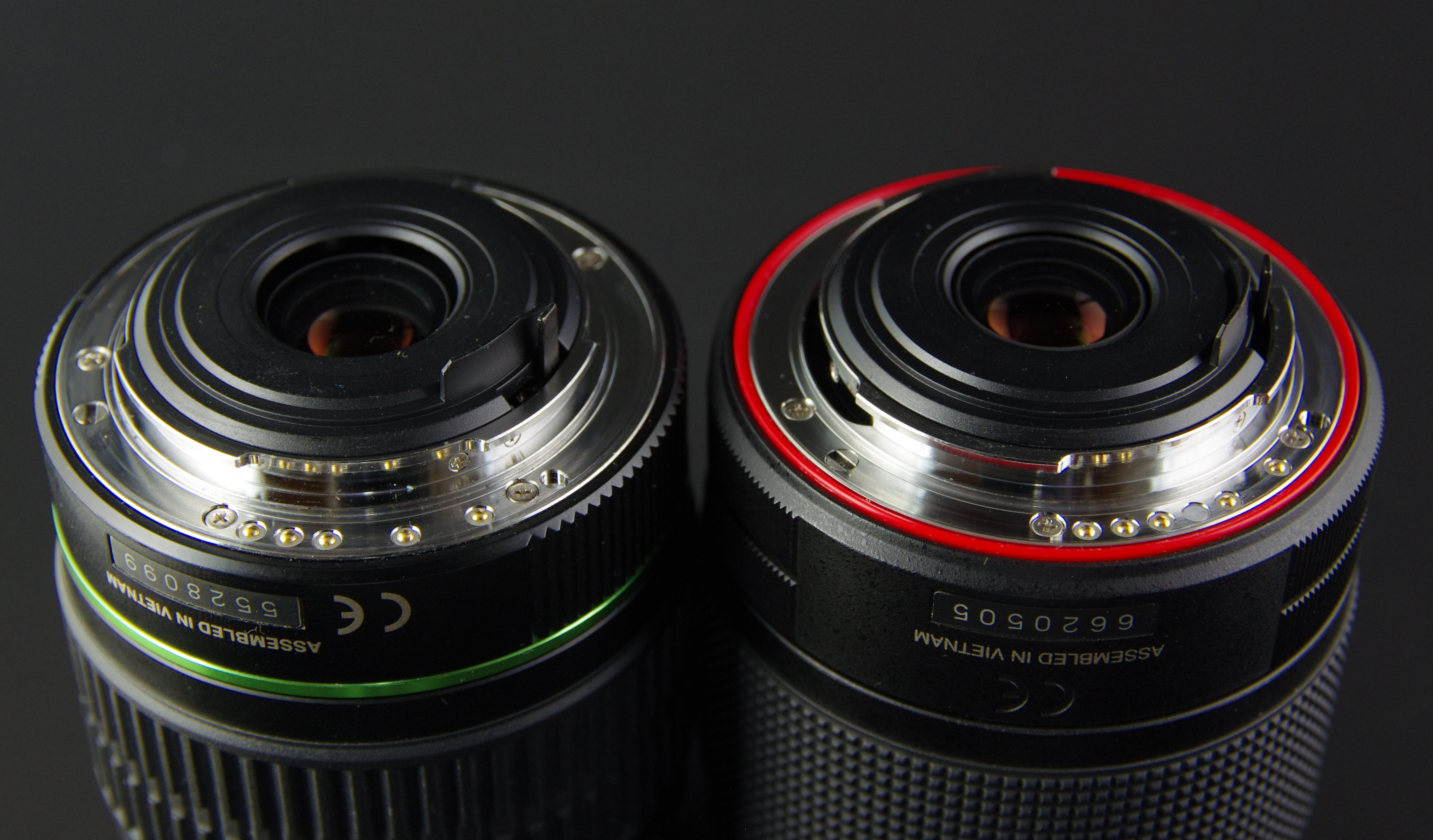 SMC Pentax-DA 50-200mm 1:4-5.6 ED. Non-WR version on the left, WR-version on the right (note the red rubber sealing).